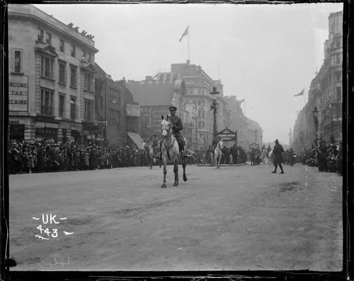 Photo of the Commander of the New Zealand Dominion component of the 1919 London victory parade. The subject is believed to be Brigadier-General Robert Young of the New Zealand Expeditionary Force. Other information These photographs are part of the Royal New Zealand Returned and Services' Association: New Zealand official negatives, World War 1914-1918 (PA-Group-00051) collection in the Alexander Turnbull Library, National Library of New Zealand.